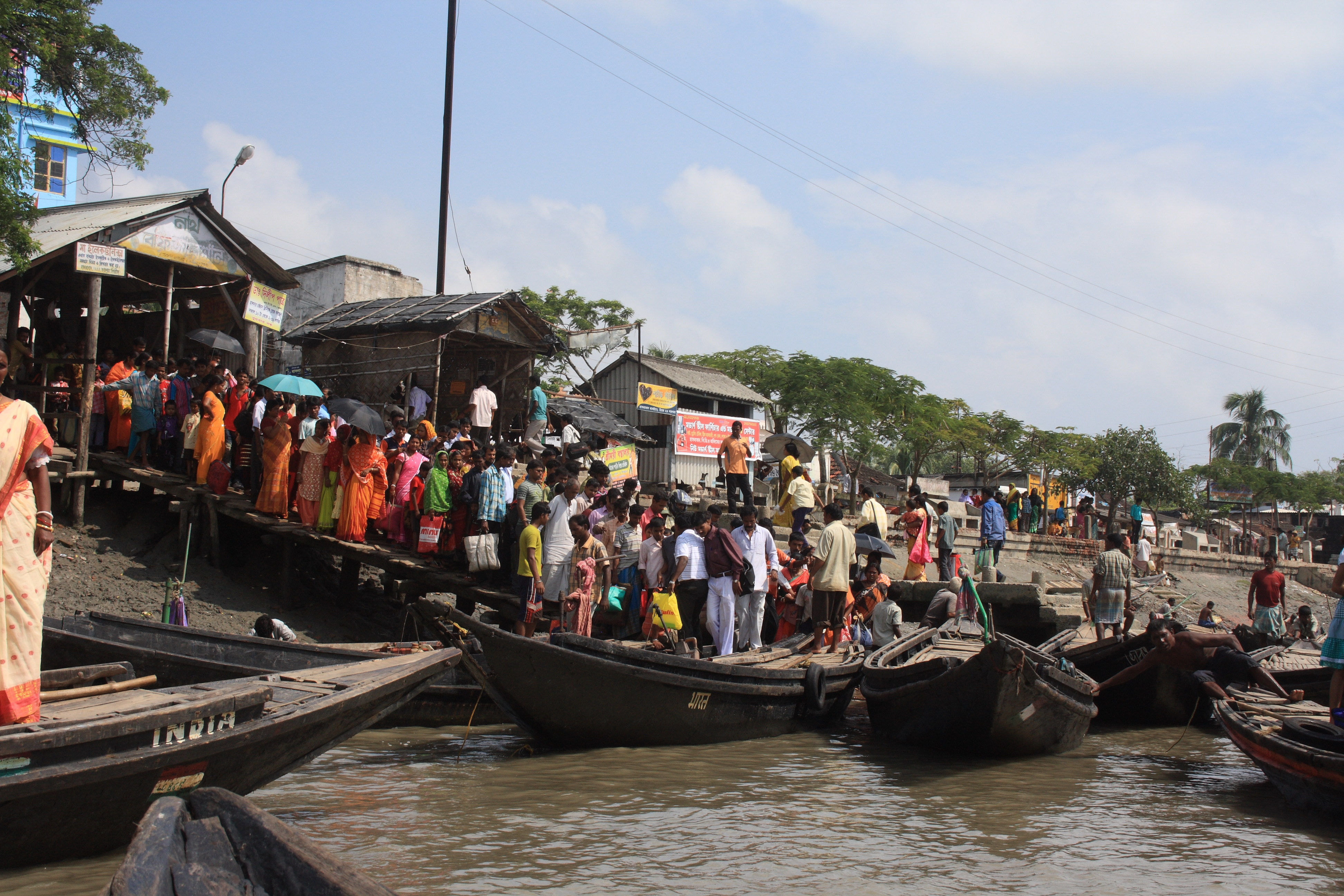 A lot of bustle at the ferry pier of Hasnabad. Those ferries are crossing a branch of River Ganges to connect Hingalganj which is on an island in the ganges delta. All boats have an engine. As the wooden boats have many leaks, bilge pumps are included in the engines and pretty busy. A lot of folks, motorcycles, bicylcles, chicken... a lot of stuff aboard except life jackets. All boats have "India" written on the hull as the Bangladesh border is very close.